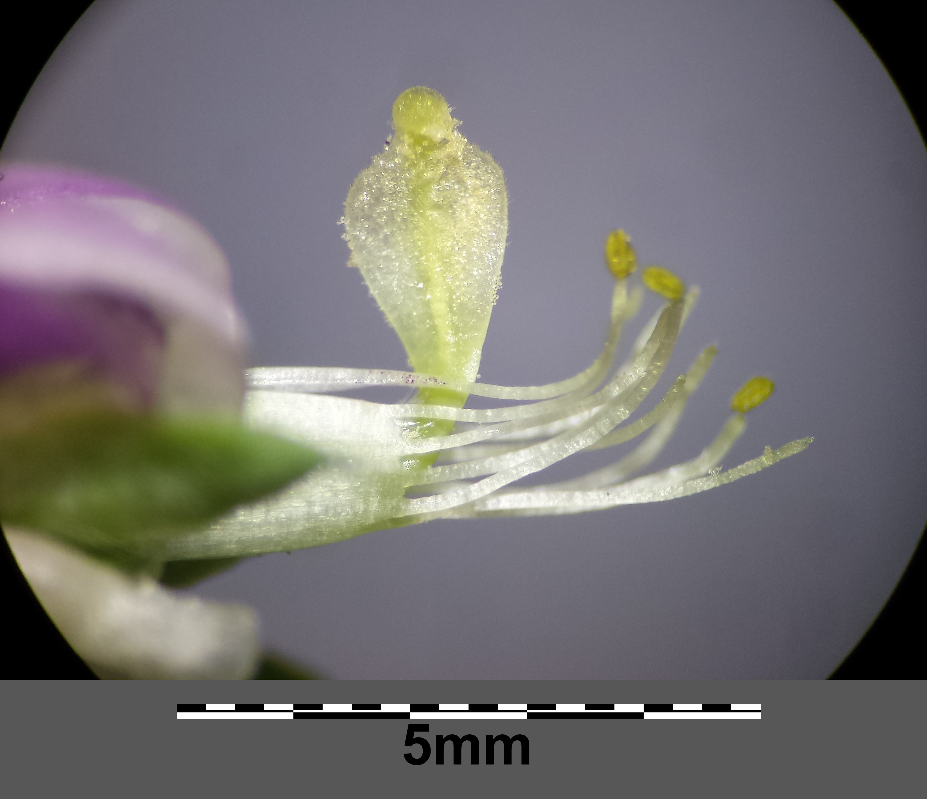 Stamina and stylus Taxonym: Lathyrus hirsutus ss Fischer et al. EfÖLS 2008 ISBN 978-3-85474-187-9 Location: Burgstall to the North of Großmugl, district Korneuburg, Lower Austria - 330 m a.s.l. Habitat: wayside